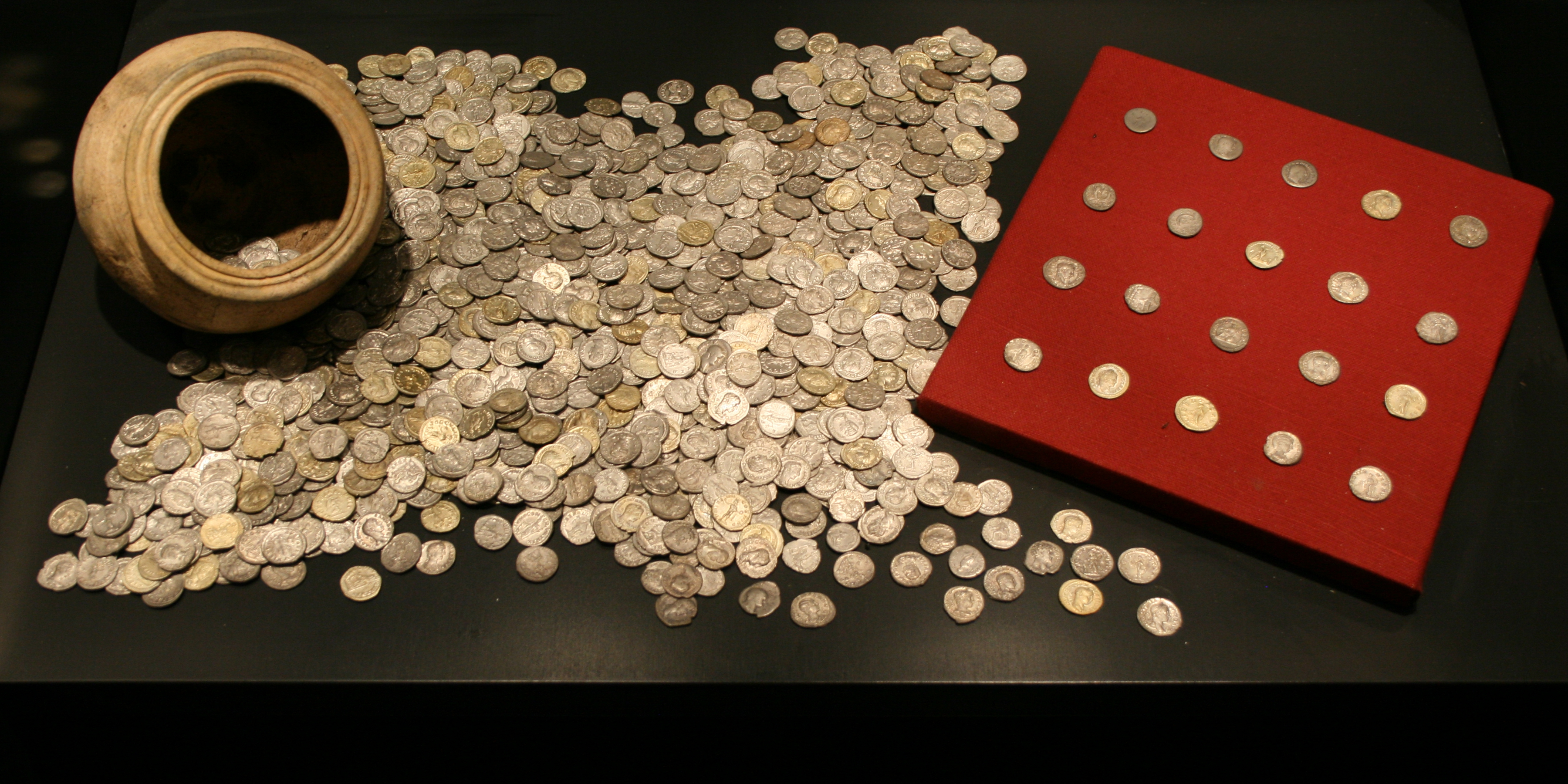 coin hoard (1.136 denarii), found near Ober-Florstadt, Hessen, Germany in a roman fort near the Limes Germanicus (233 AD). Presentation in the Wetterau-Museum in Friedberg..